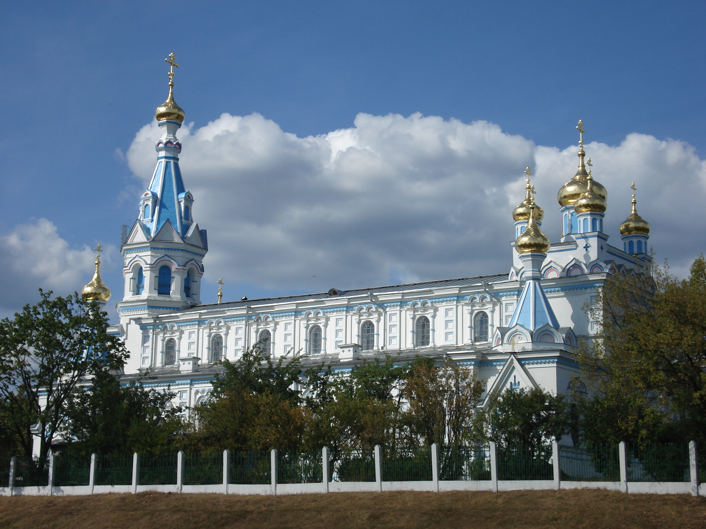 Daugavpils Ss Boris and Gleb Orthodox Cathedral